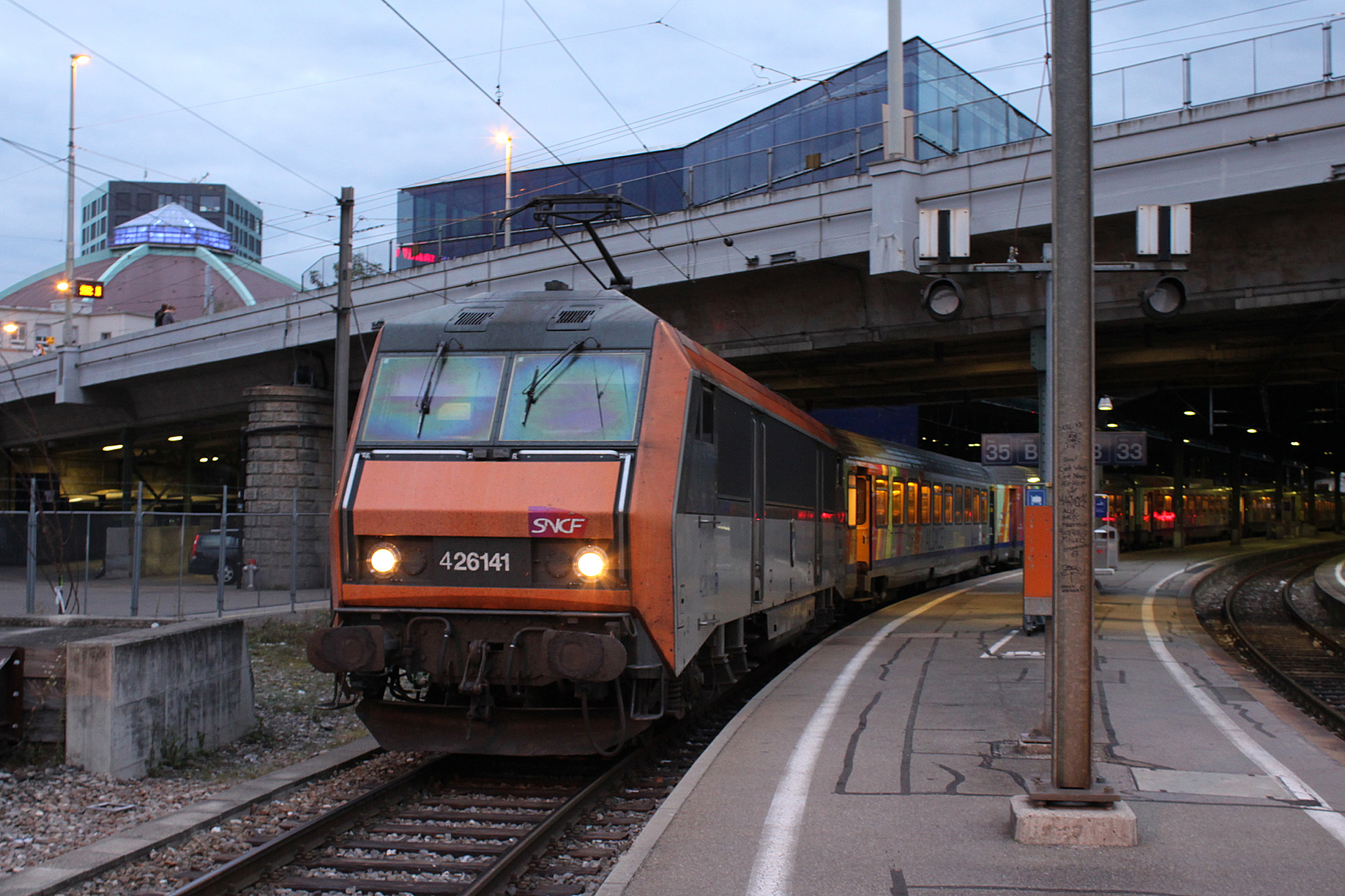 SNCF BB 26141 at Basel SBB train station ahead of TER200 96204 to Strasbourg-Ville.